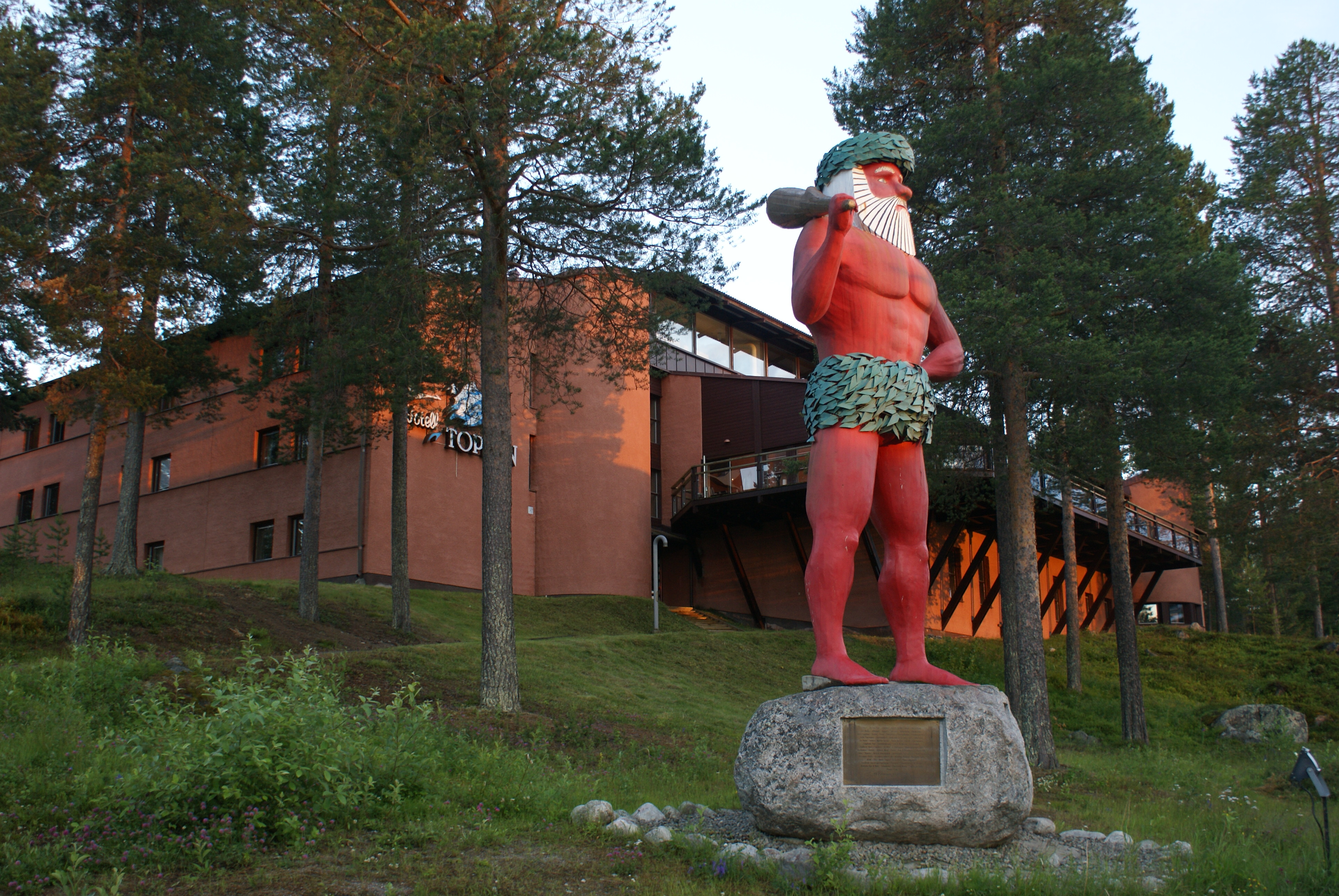 Statue of the 'Vildman' in Storuman, Sweden